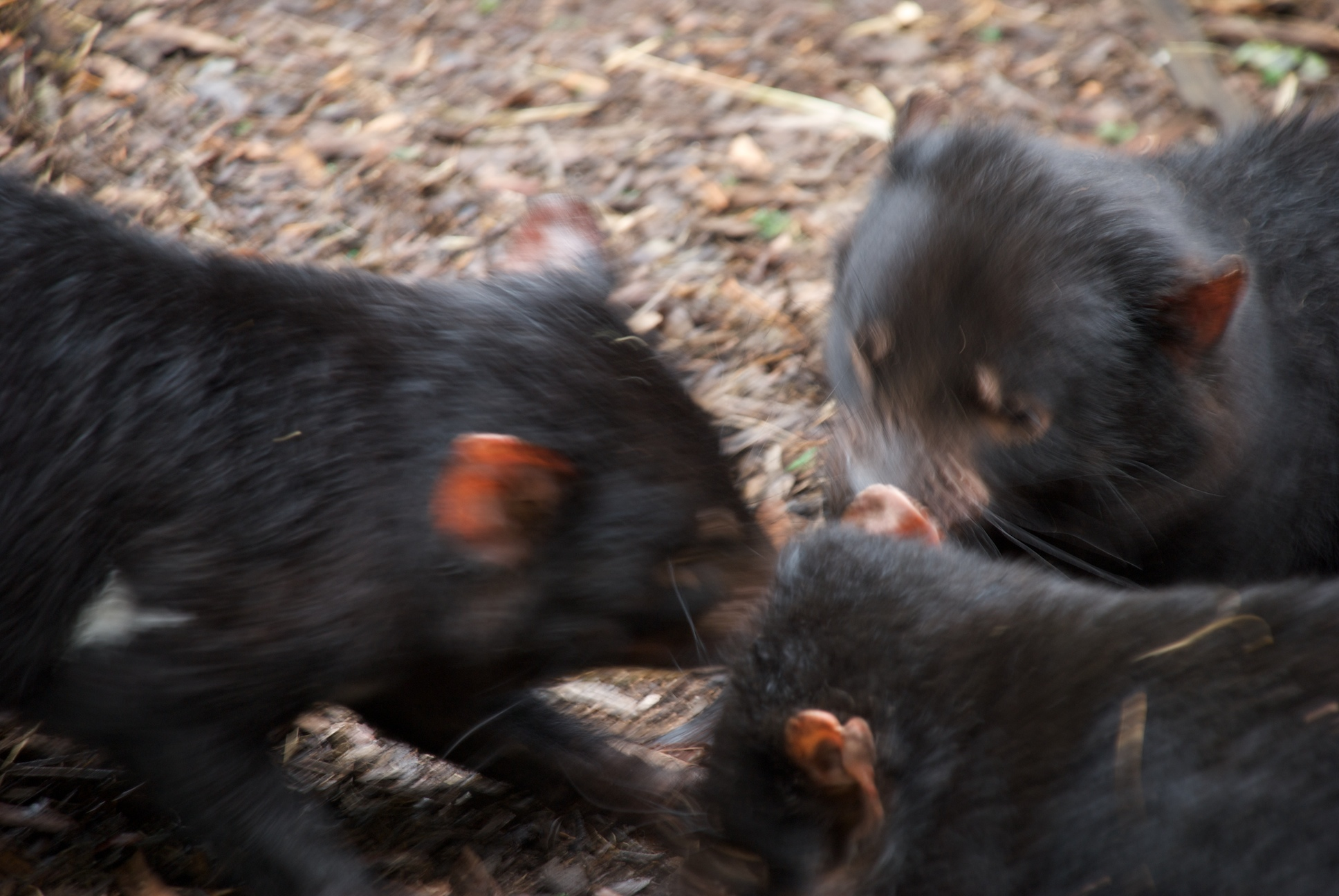 Three Tasmanian Devils feeding at the Tasmanian Devil Conservation Park in Port Arthur.